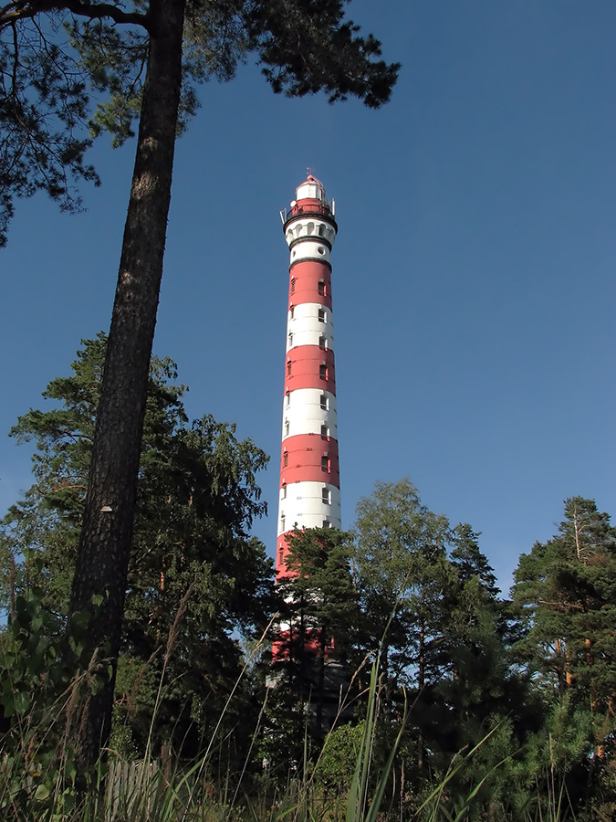 Osinovetskiy Lighthouse, Lake Ladogan, near Saint Petersburg, Republic of Karelia, Leningrad Oblast, Russia; the 3rd tallest lighthouse in Russia.